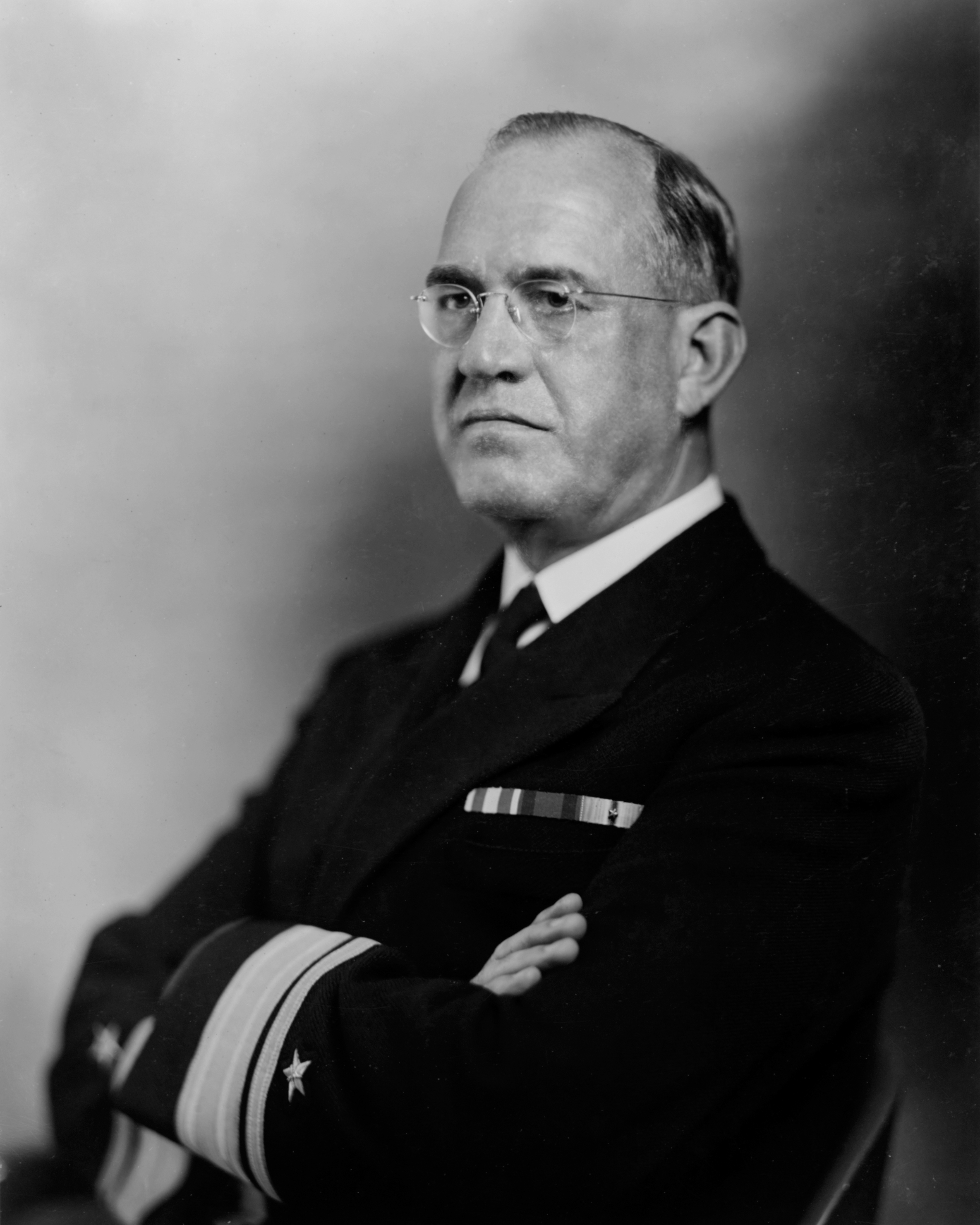 Rear Admiral James O. Richardson, U.S. Navy, while serving as Chief of the Bureau of Navigation, 1938.